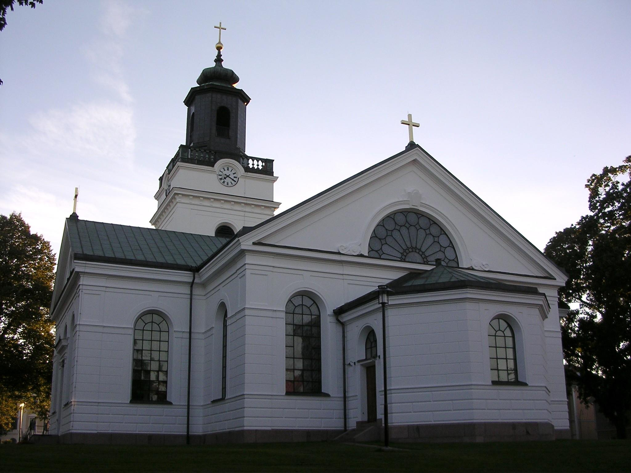 Church of Eksjö, Sweden